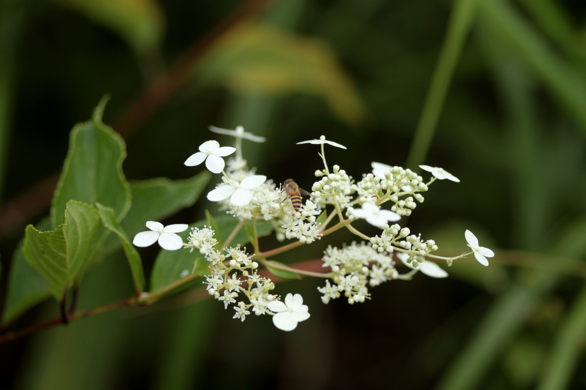 I am a shrub with papery leaf blades that are ovate to elliptic, 5 to 14cm long and 6 to 6.5cm wide. You can find me in sparse forests or thickets in valleys or on mountain slopes or tops from 300 to 2100m above sea level. I mainly multiply by way of cuttage and division.